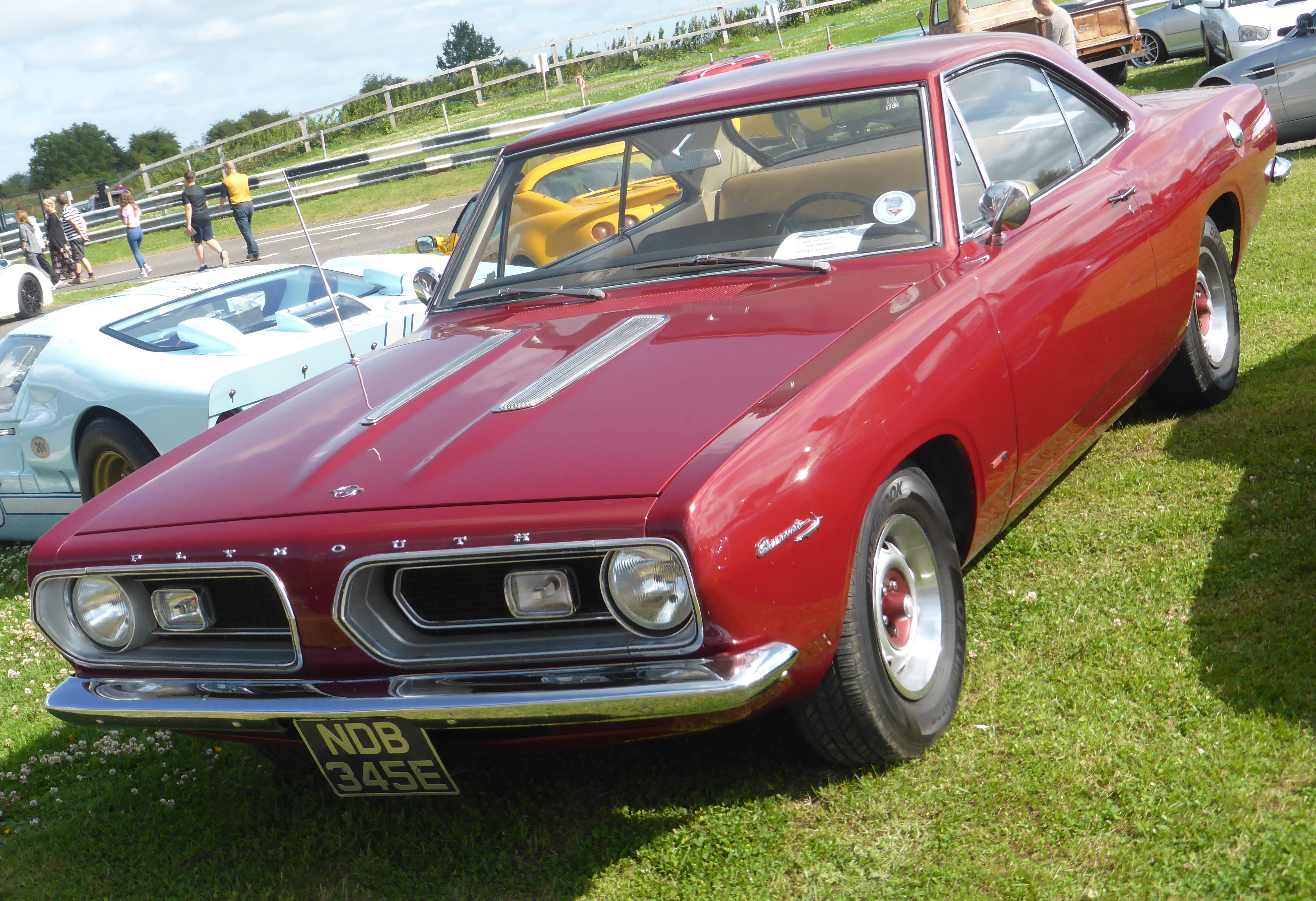 Haynes International Motor Museum Breakfast Club